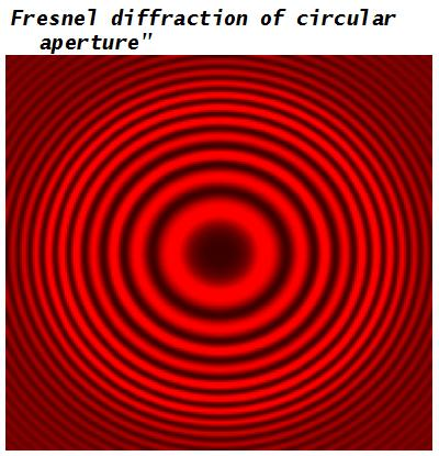 Fresnel diffraction of circular aperture,plotted with Lommel functionsWith Maple Version 16.2 grid [200,200]